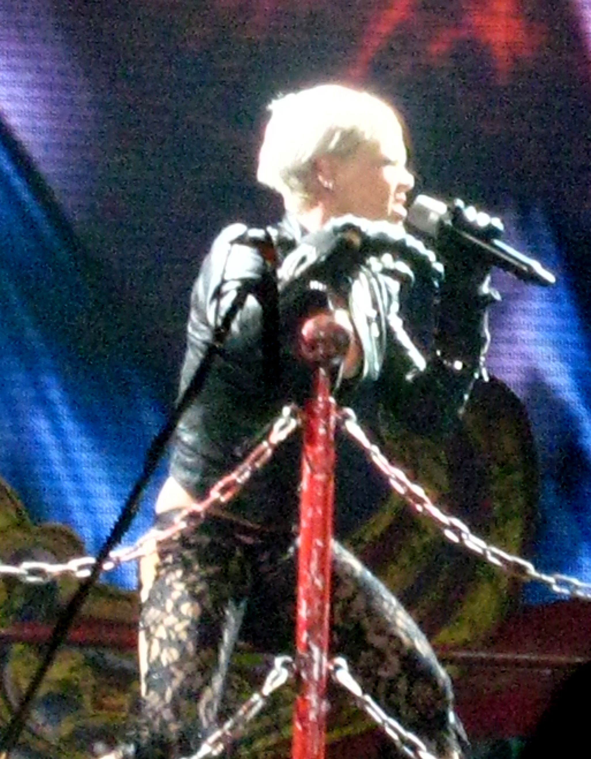 P!nk performing "So What"